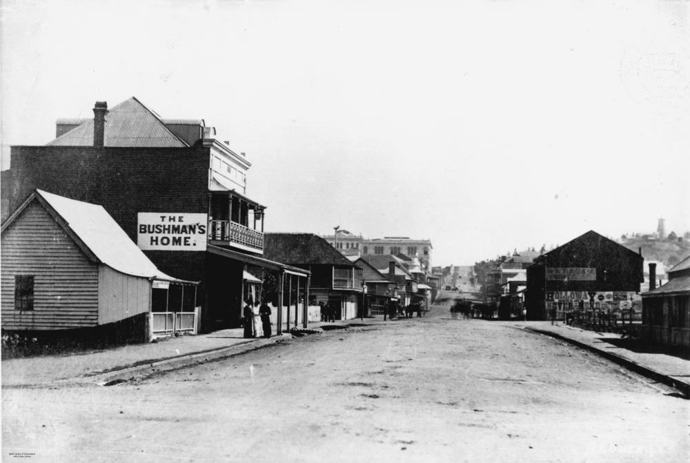 Albert Street, Brisbane, Queensland, Australia ca. 1883. View of Albert Street from the corner of Margaret Street looking west. The Bushman's Home at 25 Albert Street was a boarding house. Four doors down, on the corner of Mary Street, stands the Gympie Hotel. On the opposite side of the road is the premise of Yuen King Kee & Co., Chinese merchants. Other Chinese shops on the right side of Albert Street included Nam Yoe, Chinese storekeeper at 54, Sam Lee's Chinese Fancy Goods Shop at 68, and Sun Yen Chong, Chinese storekeeper at 70.